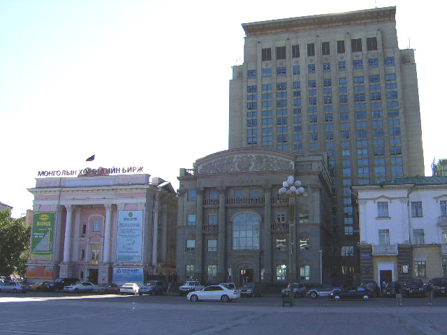 The Mongolian Stock Exchange (left) and the Bodhi Tower (right) at Sukhbaatar Square, Ulaanbaatar. Photographer Gantuya This picture should be taken again--in the morning, not in the afternoon, and by an experienced photographer.